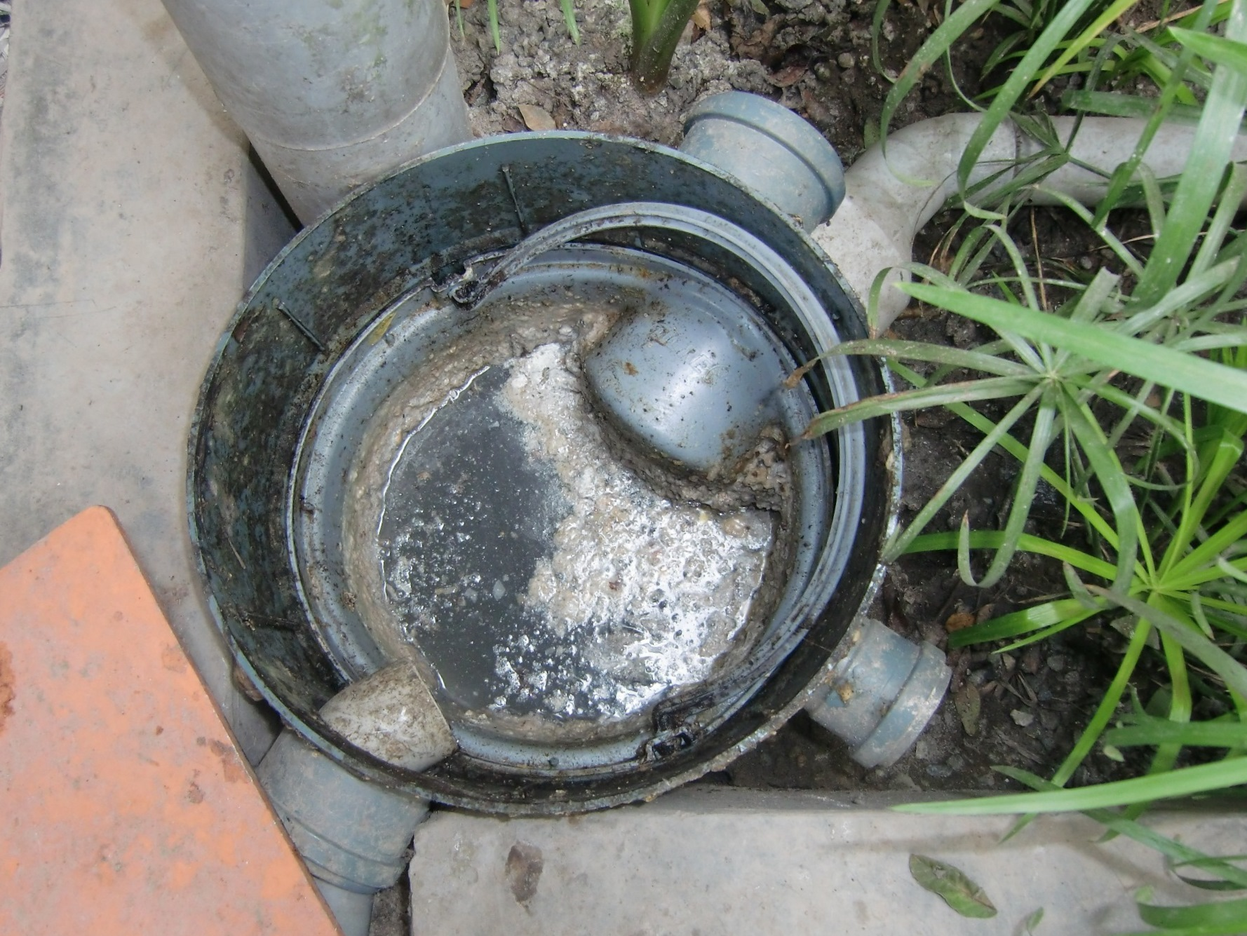 The grease trap can remove grease and sludge through/with a removable bucket. The holes are closed up to a height of 1/3. This is done to hold sand and settleable materials. The removal has to be done regularly to keep the grease trap functioning. Photo by Heike Hoffmann, December 2010.